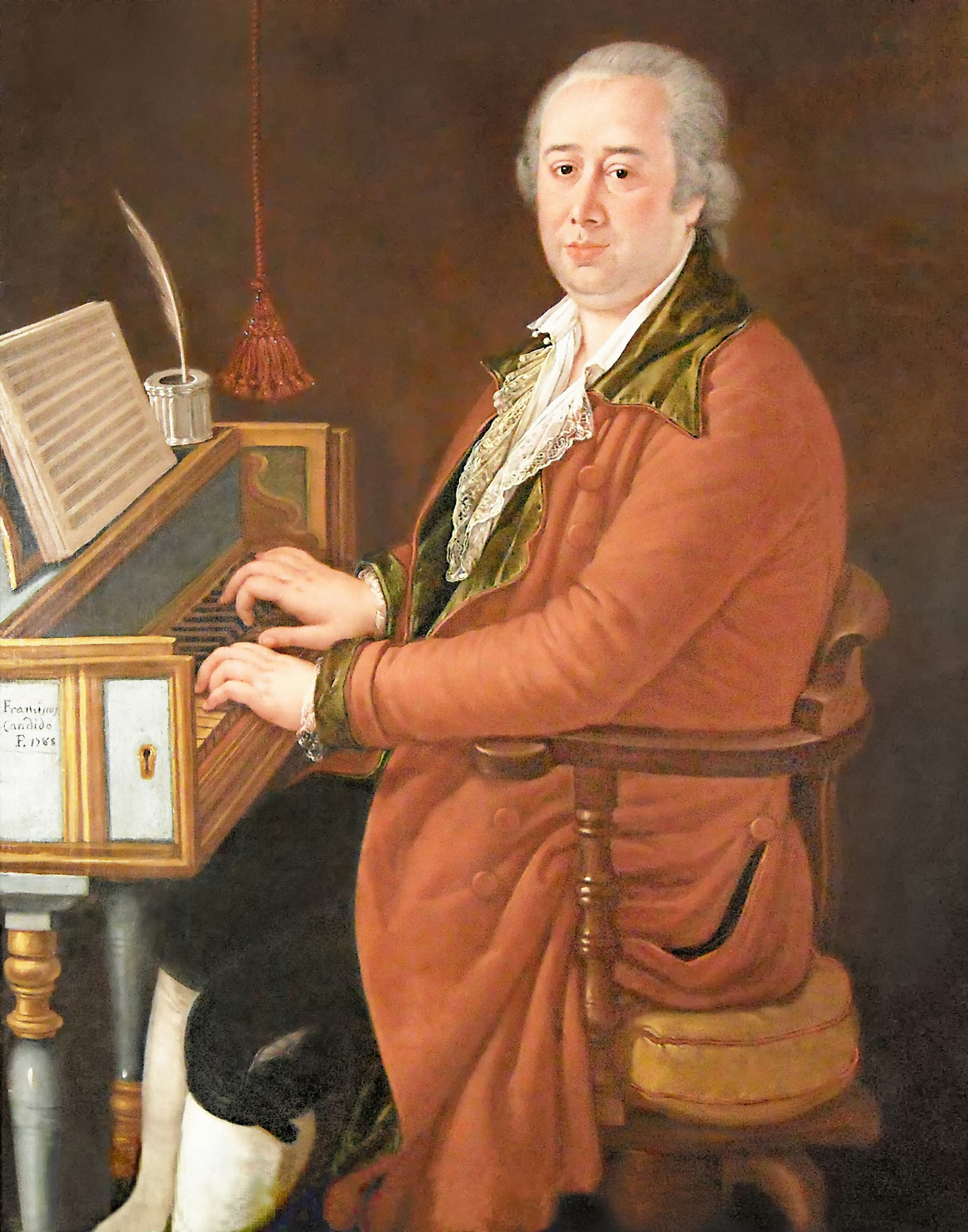 Portrait of Domenico Cimarosa (1749-1801)